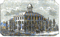 Washington Schoolhouse, Nevada City, California, US